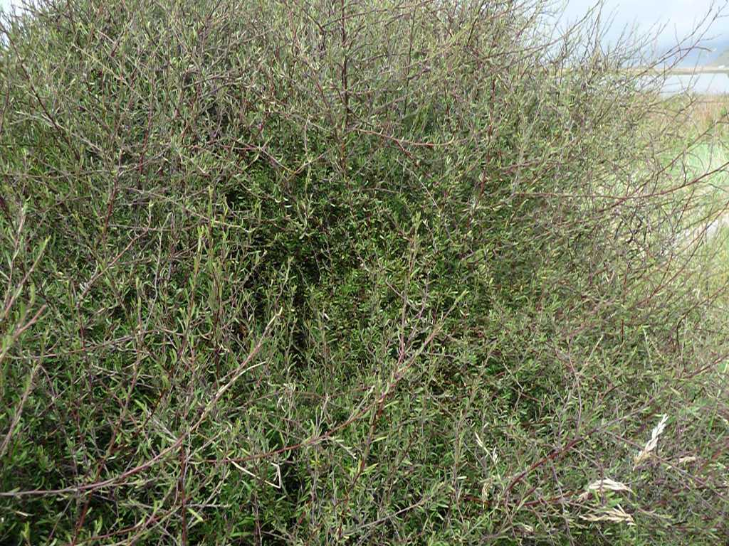 Plagianthus divaricatus by Sunita Singh via iNaturalist